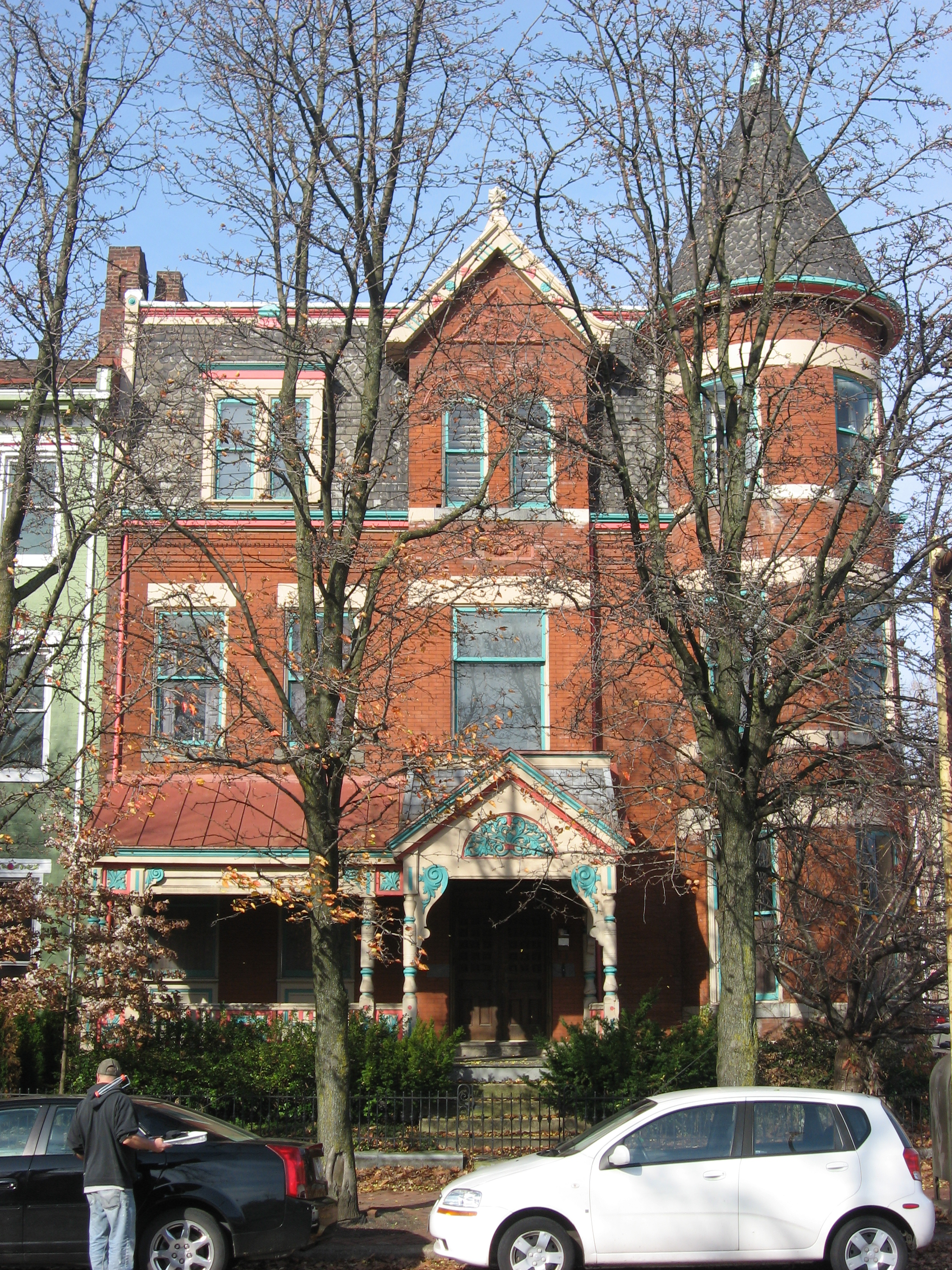 Front of the House at 200 West North Avenue in the Central Northside neighborhood of Pittsburgh, Pennsylvania, United States. Built in 1890, it is listed on the National Register of Historic Places.